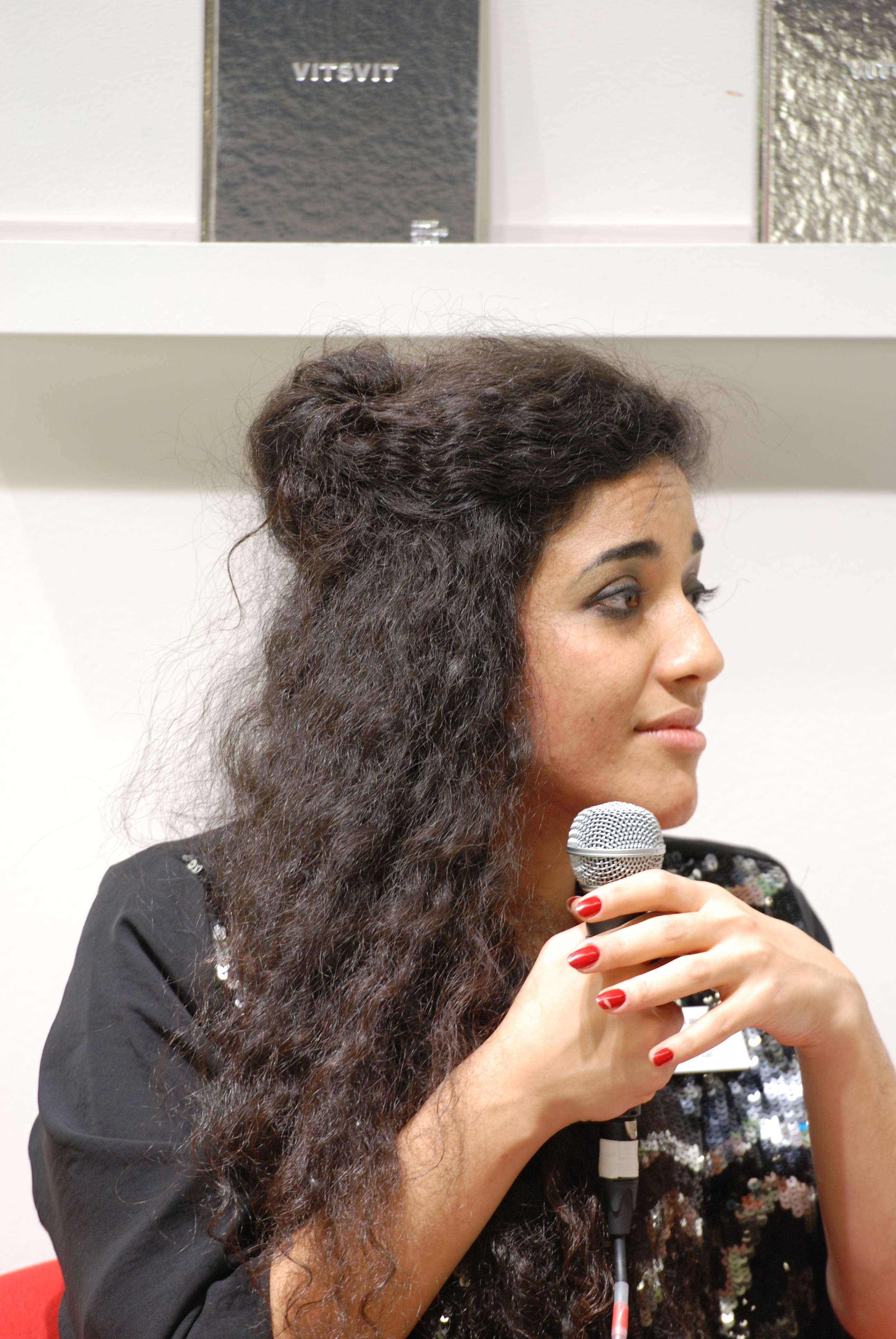 The Swedish writer Athena Farrokhzad at Göteborg Book Fair 2013.